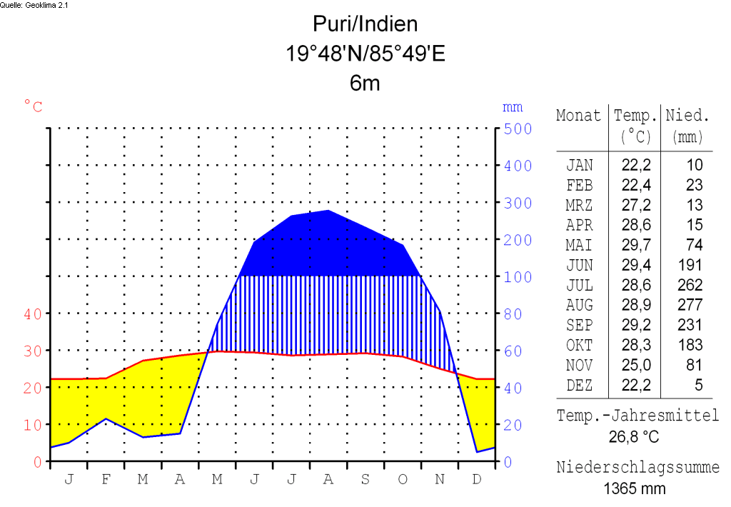 climate chart in the format by Walter and Lieth, metric, °Celsisus and millimeters, made with Geoklima 2.1